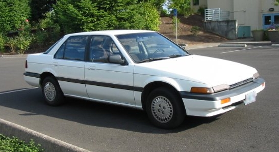 Picture of my own car.